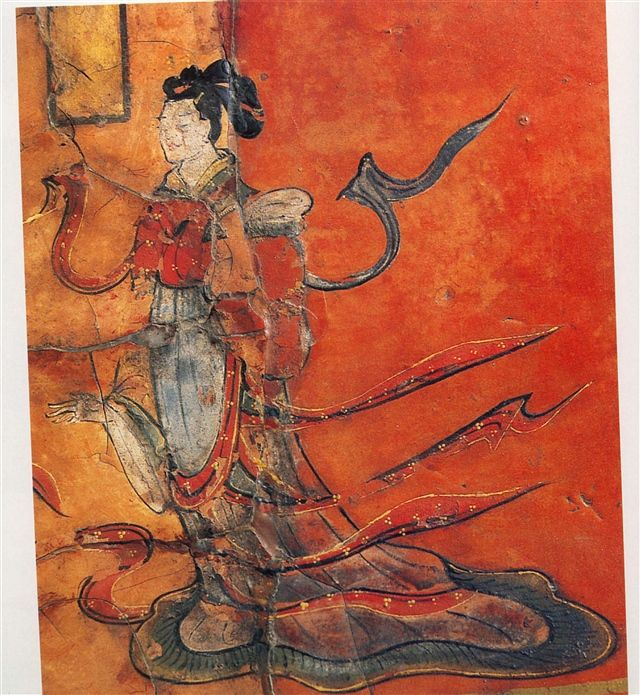 Female figure dressed in Tsa-chü-chʻui-shao (雜裾垂髾) clothing, from a lacquer painting over wood, 5th century.